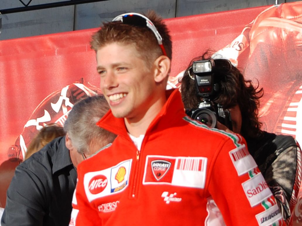 Casey Stoner, Phillip Island, 2007 This is cropped version. Original size is here.